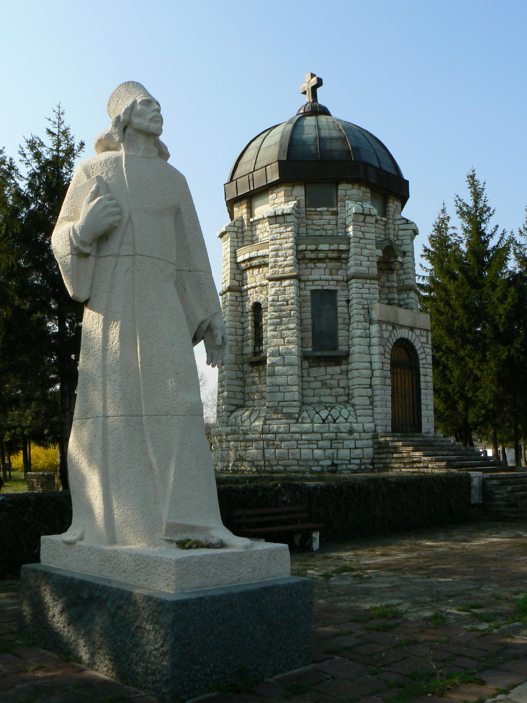 The statue and tomb of Bulgarian priest and national revolutionary Matei Preobrazhenski, near his home village Novo Selo, Veliko Tarnovo District, Bulgaria